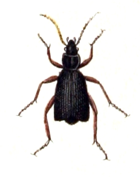 Aptinus bombarda, from Calwer's Käferbuch, Table 5, Picture 16. Taxonomy was updated to 2008, using mostly the sites Fauna Europaea and BioLib. Please contact Sarefo if the determination is wrong!